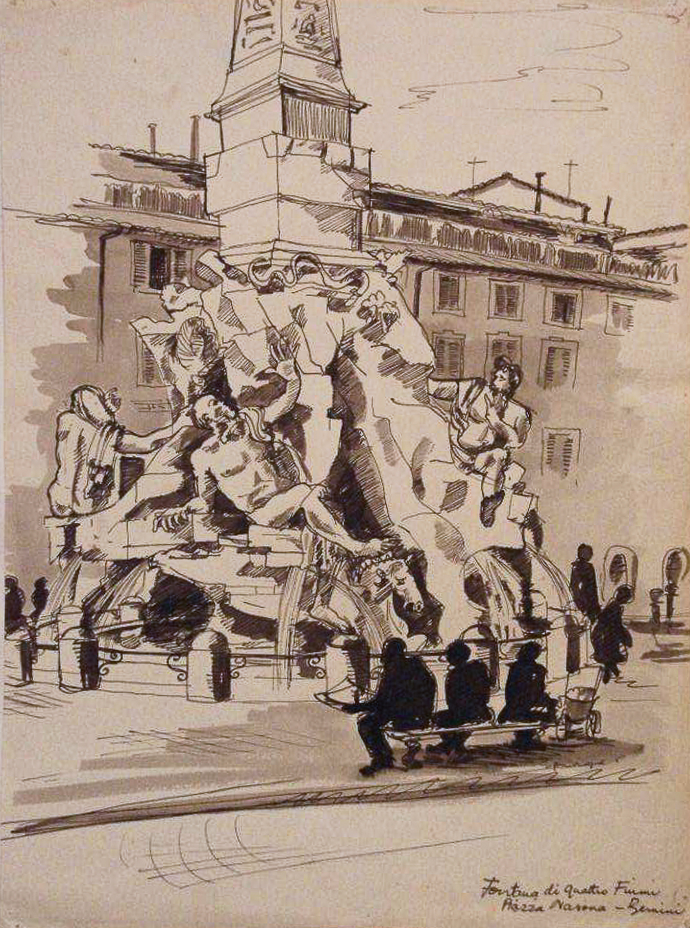 Ink drawing of the fountain in Piazza Navona by Ian Sprague; photographed in a private collection at Enfield Victoria